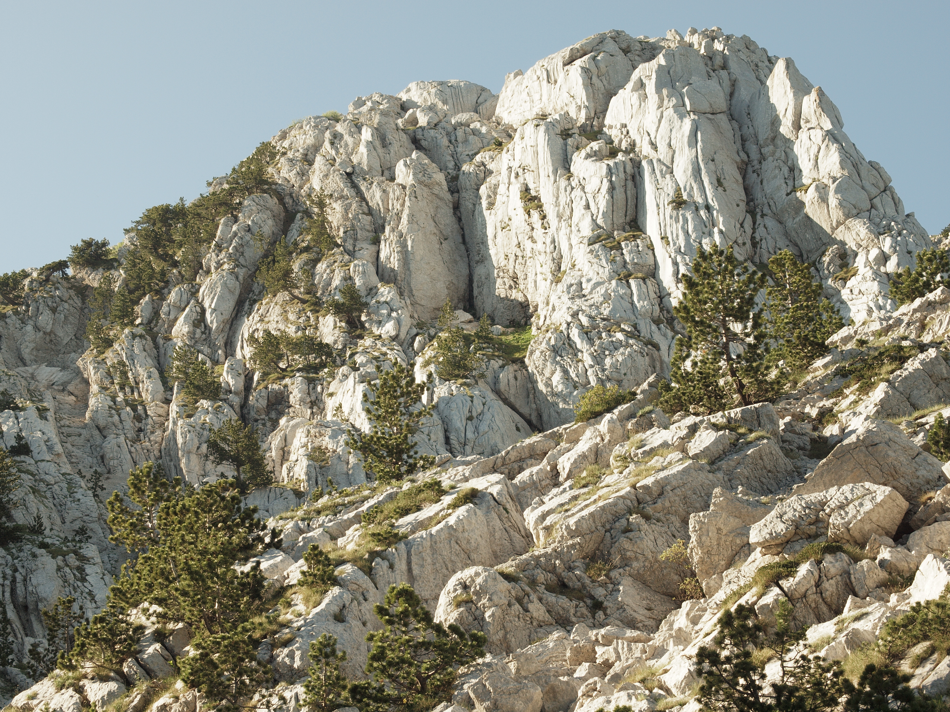 View of summit, Zubacki kabao, Orjen Montenegro. Trees are Pinus heldreichii.